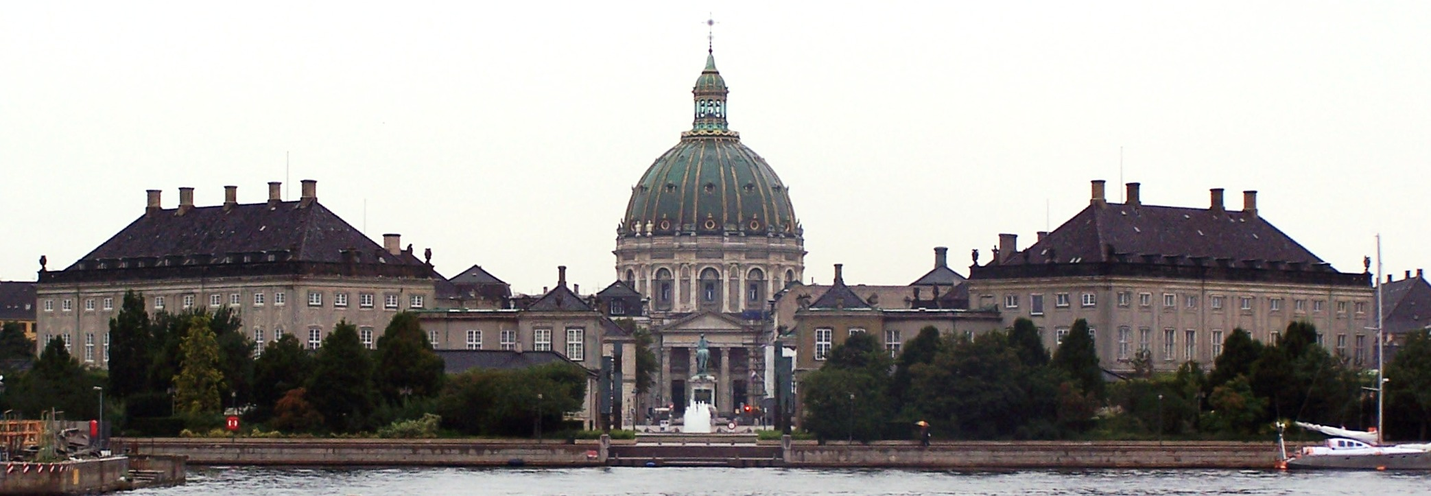 Amalienborg Castle, Copenhagen, with Marmorkirken (the Marble Church) in the back